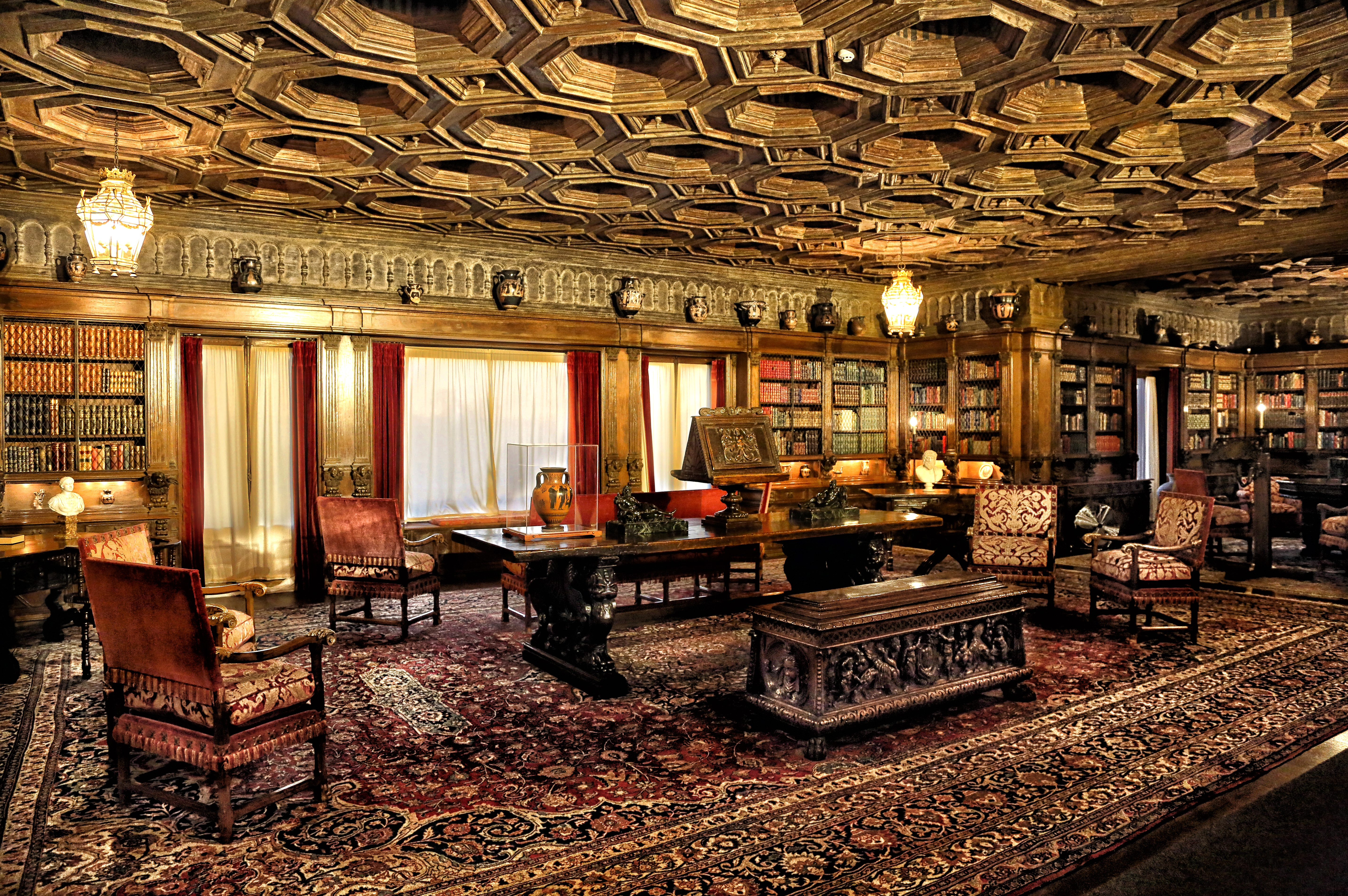 A room in Hearst Castle California